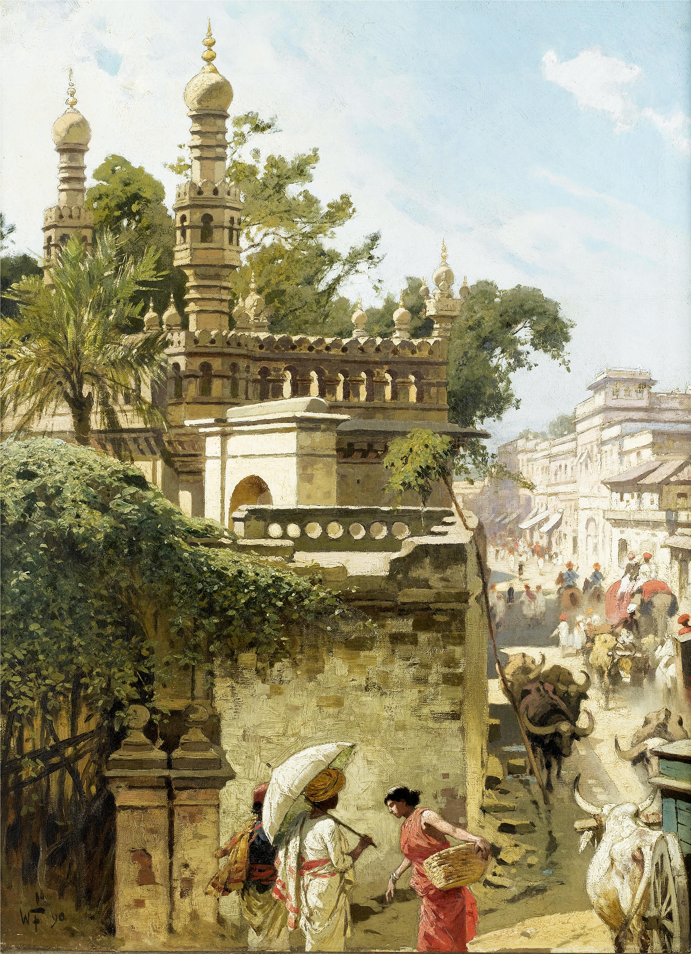 Street scene in Hyderabad, India. Signed with initials WF and dated 90 . Oil on canvas, 66 x 50 cm